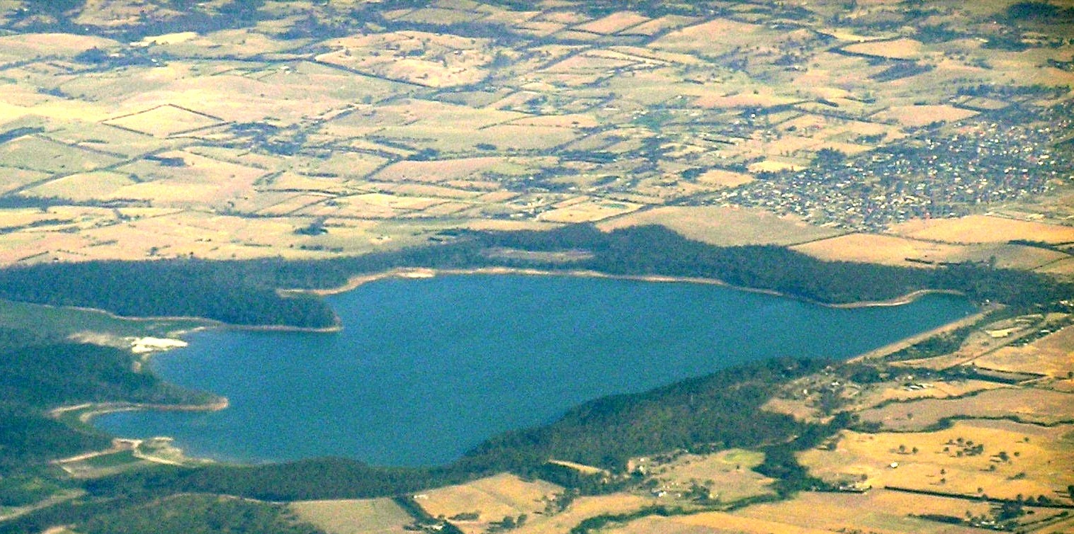 Yan Yean Reservoir in Victoria view from North. Yan Yean village is in the background behind the reservoir